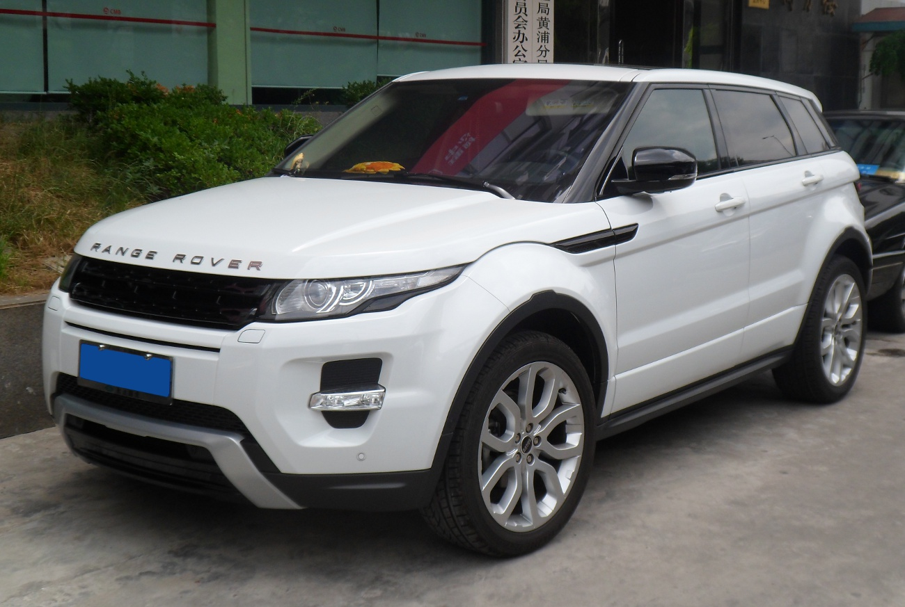 Land Rover Range Rover Evoque L538 photographed in Shanghai, China.